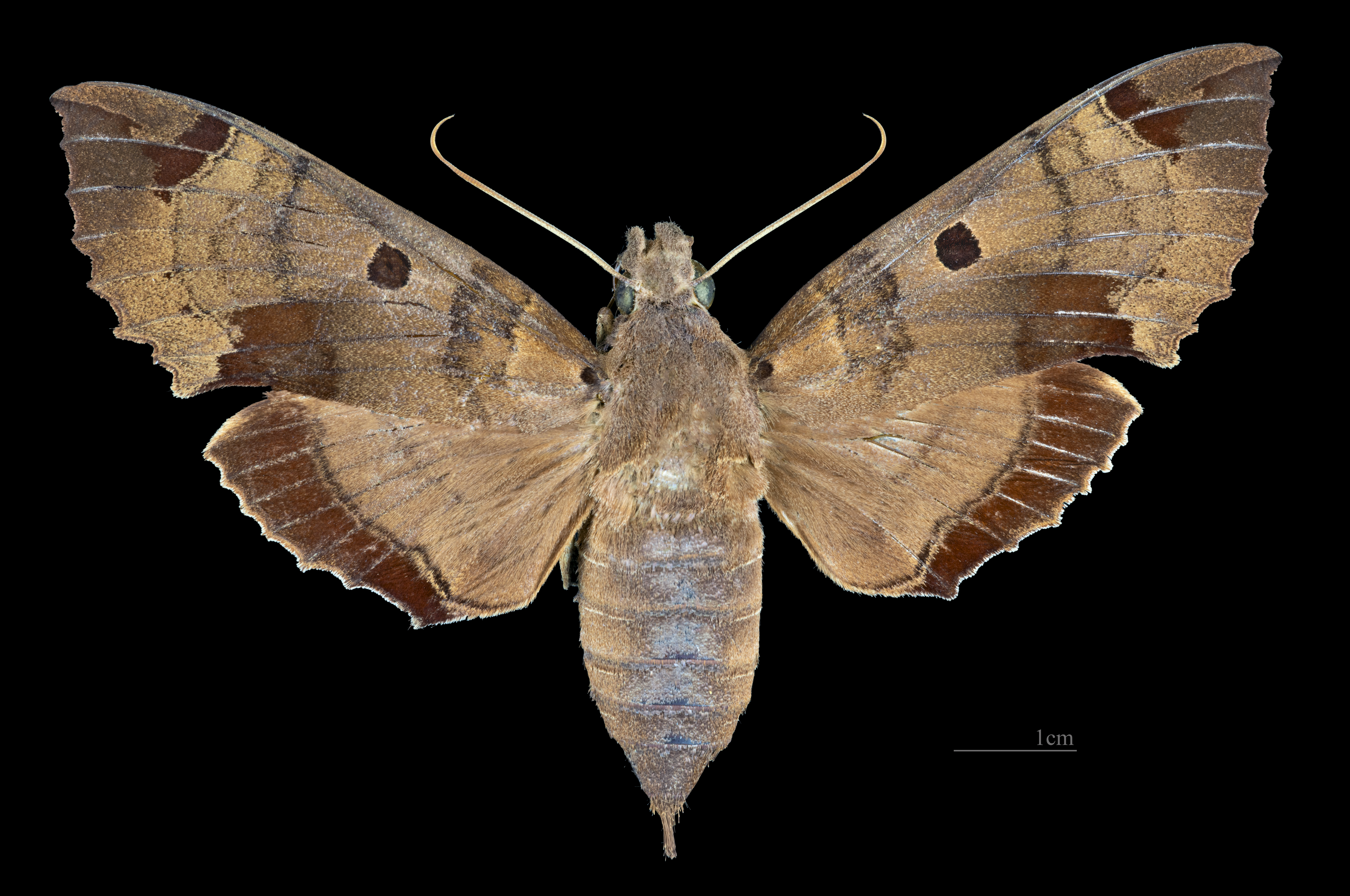 Kloneus babayaga - Dorsal side Collection of the Mathematician Laurent Schwartz